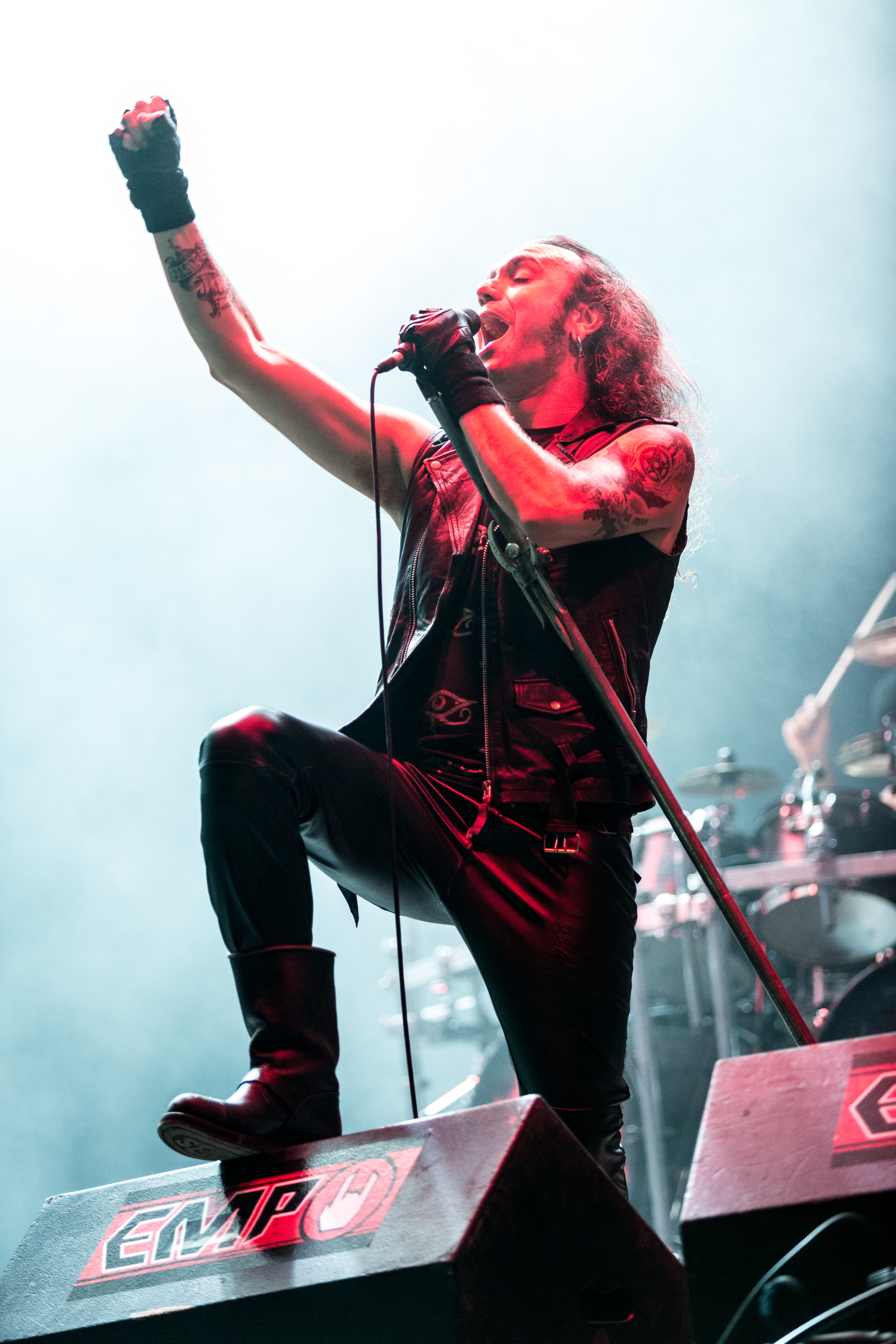 The Portuguese gothic metal band Moonspell at the Summer Breeze Open Air 2017 in Dinkelsbühl/Germany.